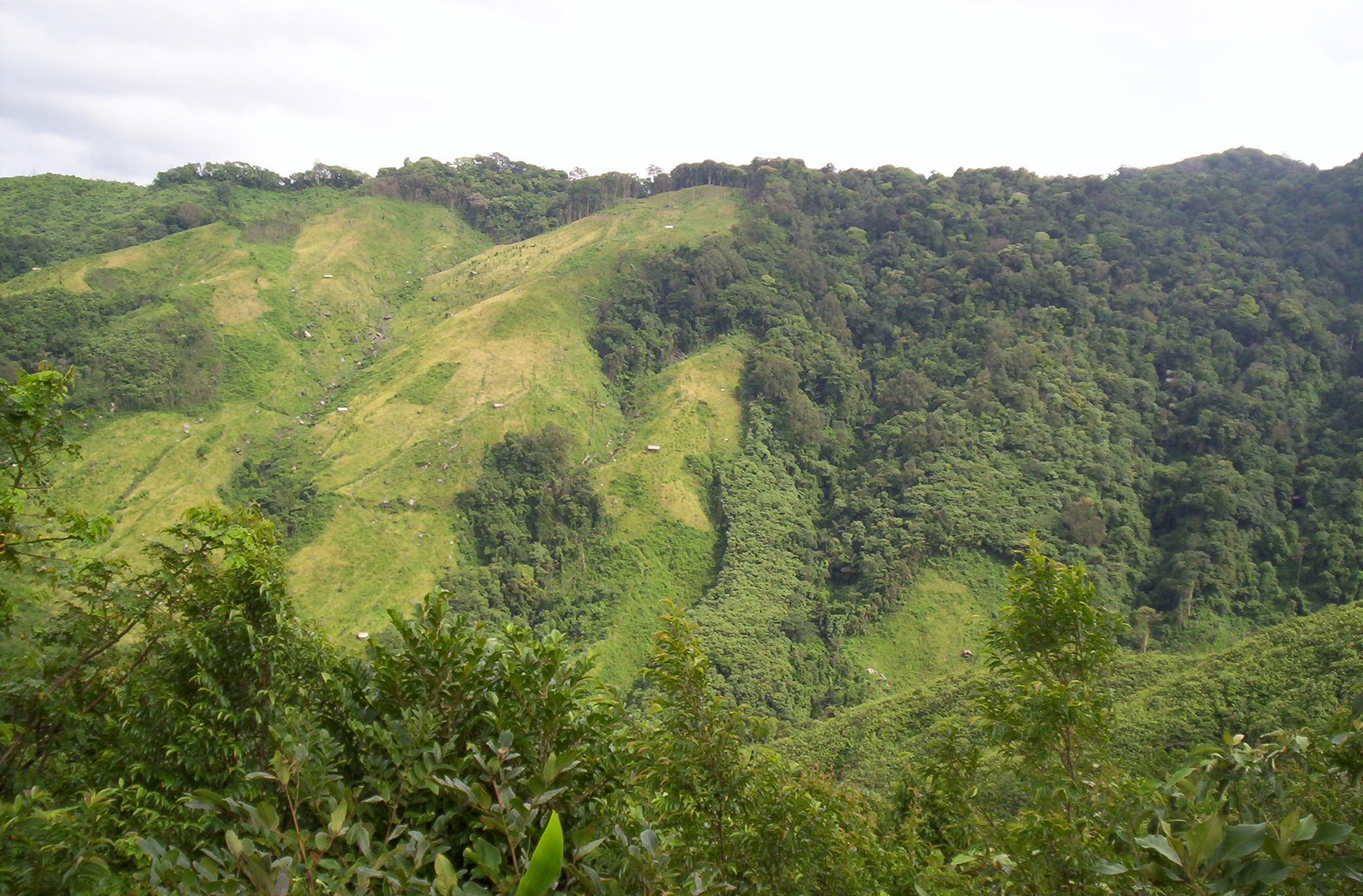 Northeast India is very rich in biodiversity and is a part of mega biodiversity hotspots in the world. However, these vast natural resources including forests are in continuous threat from anthropogenic activities and natural calamities. This picture was taken from Nokrek Biosphere Reserve in Meghalaya (India) during 2004. Traditional slush-and-burn agriculture, locally known as Jhum cultivation, is very common among the tribal forest dwelling population in Northeast India. The reduction in biosphere is sometimes high, as visible in this picture. Image Credit: Baharul Choudhury, Concordia University